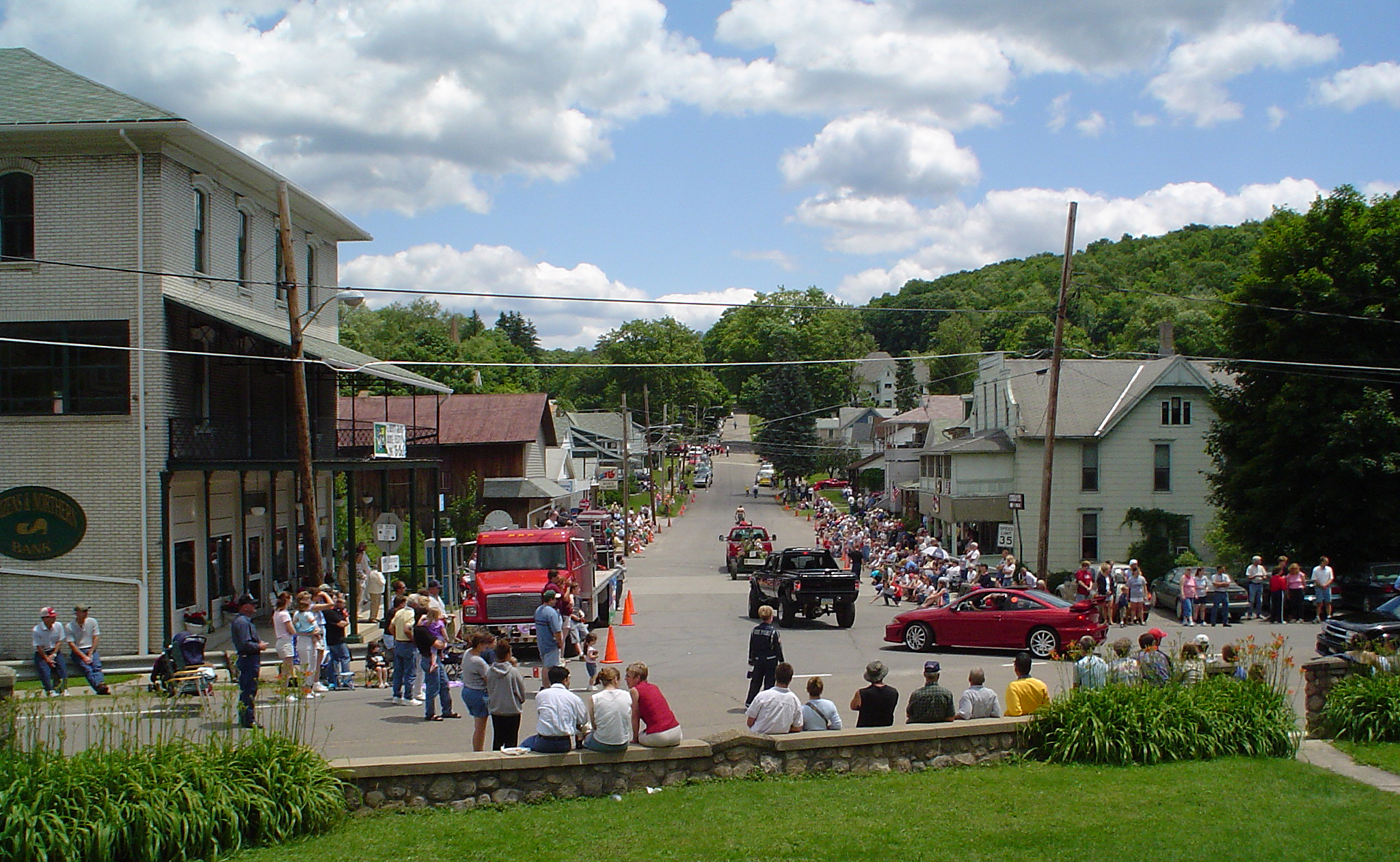 Downtown Liberty, Tioga County, Pennsylvania, during the annual Blockhouse Festival. Taken by Jack Byerly on June 27, 2004.